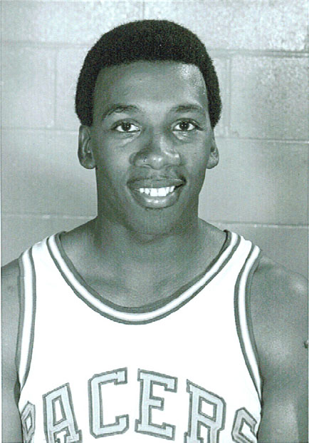 Professional basketball player Freddie Lewis